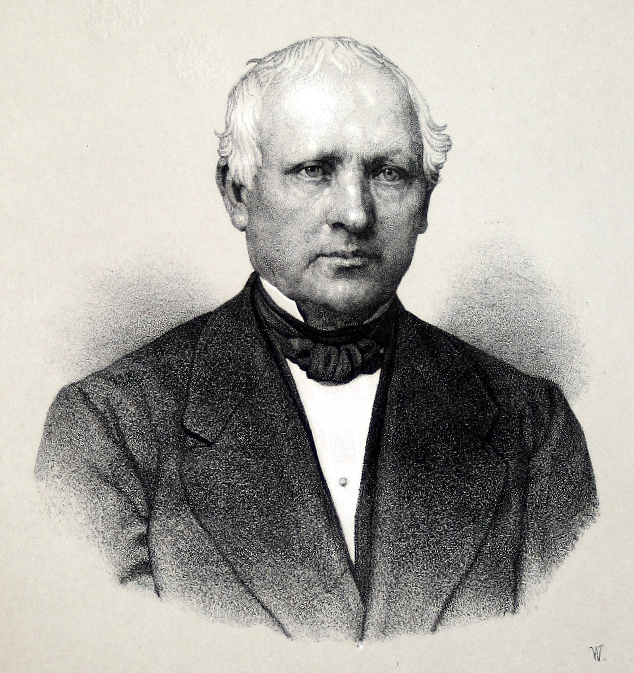 Portrait of Carl David Lundström from the book "Svenska industriens män" (1875)